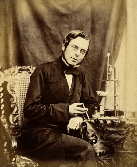 V0028357 Hardwich. Photograph. Credit: Wellcome Library, London. Wellcome Images Hardwich. Photograph. Published: - Copyrighted work available under Creative Commons Attribution only licence CC BY 4.0